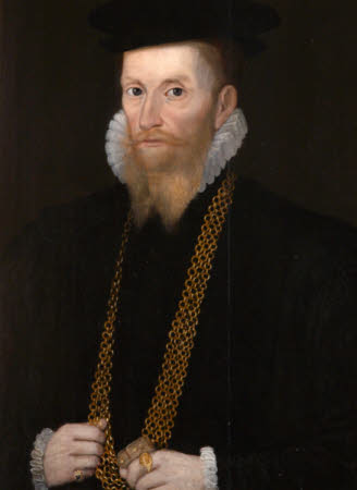 Portrait of Hugh Radcliff/Redcliffe of Stepney, Collection of Killerton House, Devon, owned by National Trust. Purchased 2001 from Sir John Dyke Acland, 16th Bt (b. 1939), from Sprydon House. Oil on panel, 578 x 432 mm (22 3/4 x 17 in ), National Trust Inventory Number 922319. His daughter and co-heiress Margaret Radcliff was the wife of John Acland (d.1553) of Acland, whose descendants later built Killerton House